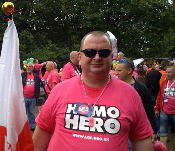 Waldemar Zboralski as "Homo Hero" of The Lesbian and Gay Foundation during Pride in Mancheter (2009)